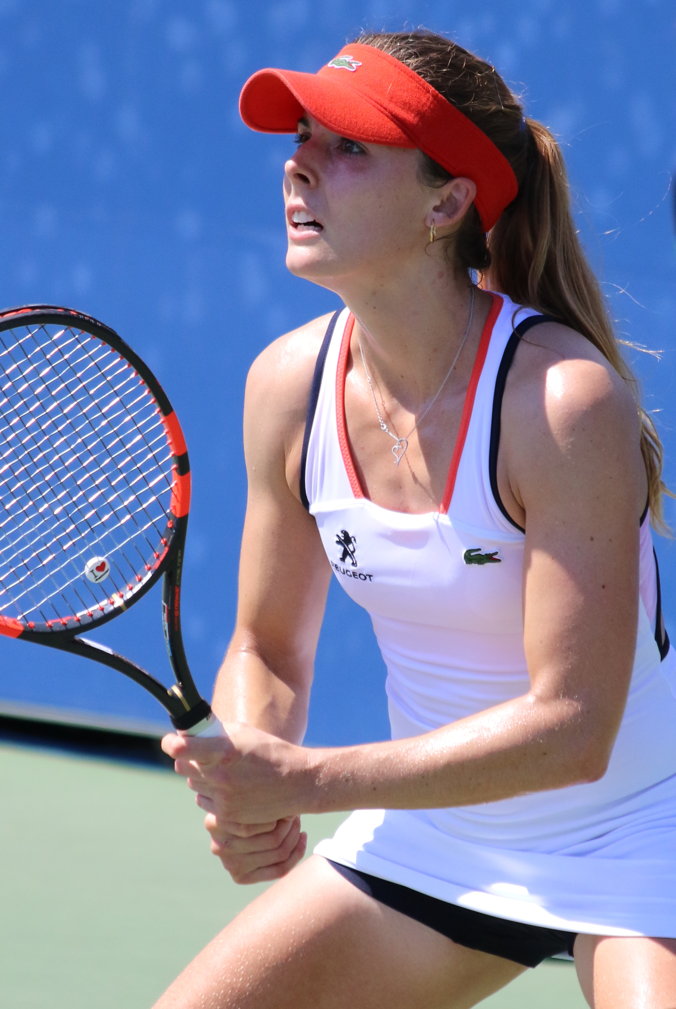 Cornet US16 (15)